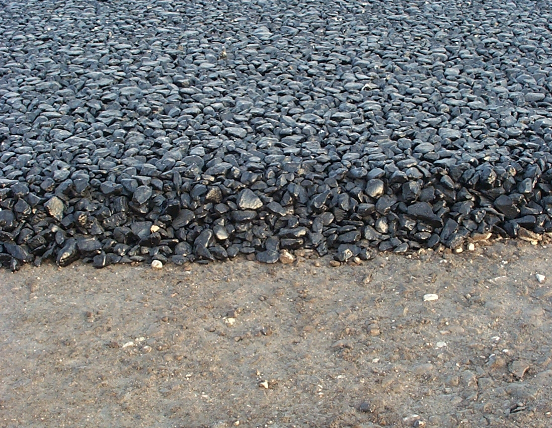 Close-up of an asphaltic concrete layer of a new road under construction. Photograph by Estr4ng3d, Helwan-Korayimat Road (Cairo, Egypt).